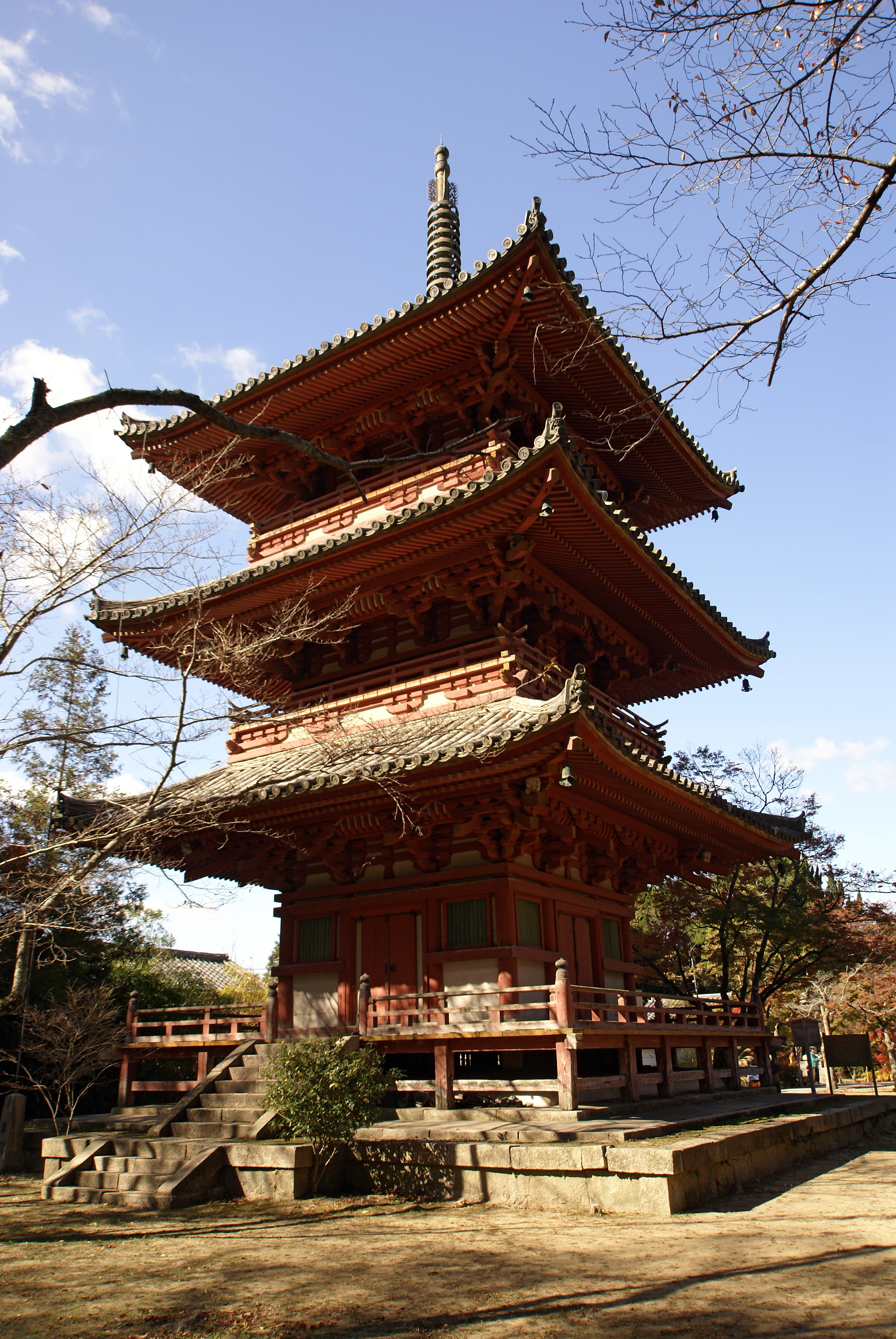 Taisanji Buddhist temple in Kobe, Hyogo prefecture, Japan Opening in 716. This photograph is the Pagoda. It was built in 1688.